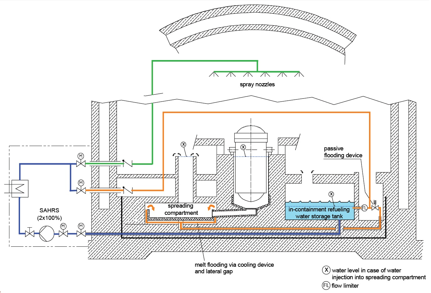 Schemata of Containment Heat Removal System (CHRS)